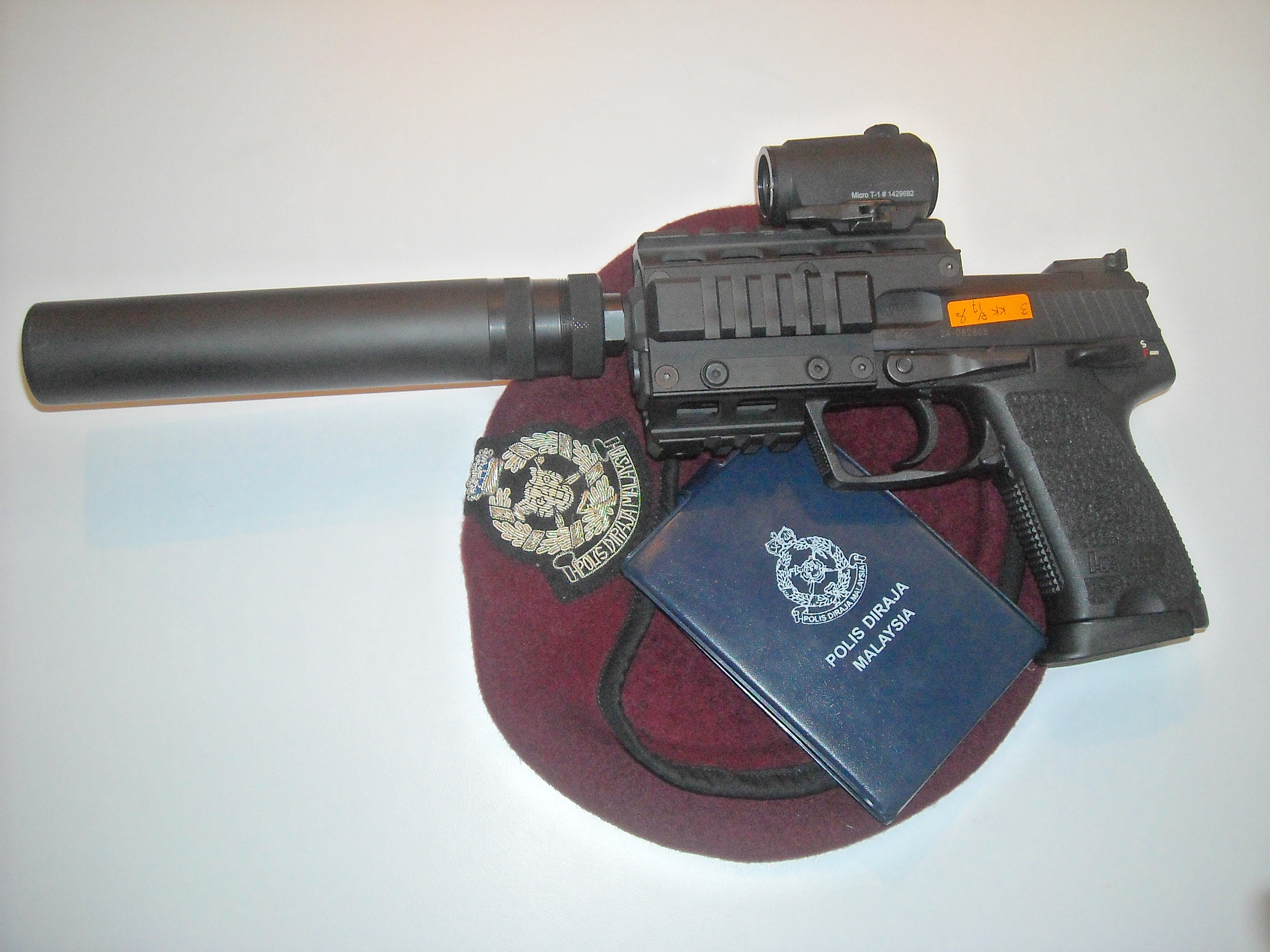 HK USP Tactical in .9mm Parabellum with 15-rounds magazine capacity. The gun also comes in .45 ACP, .40 S&W, and 9mm Parabellum. The gun is fitted with Picatinny special rail, Aimpoint Micro-T red-dot optical sight and Brügger & Thomet sound suppressor which owned by Pasukan Gerakan Khas special forces of the Royal Malaysian Police for stealth missions. Photo was taken by me with a Nikon COOLPIX L16 camera.